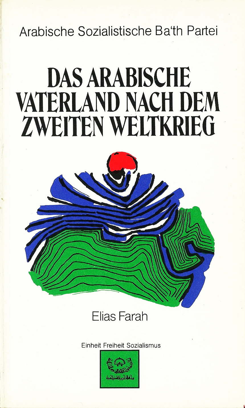 Front cover of "Das arabische Vaterland nach dem Zweiten Weltkrieg" (The Arab Fatherland/Homeland after World War II), written by Ba'athist chief ideologue Elias Farah